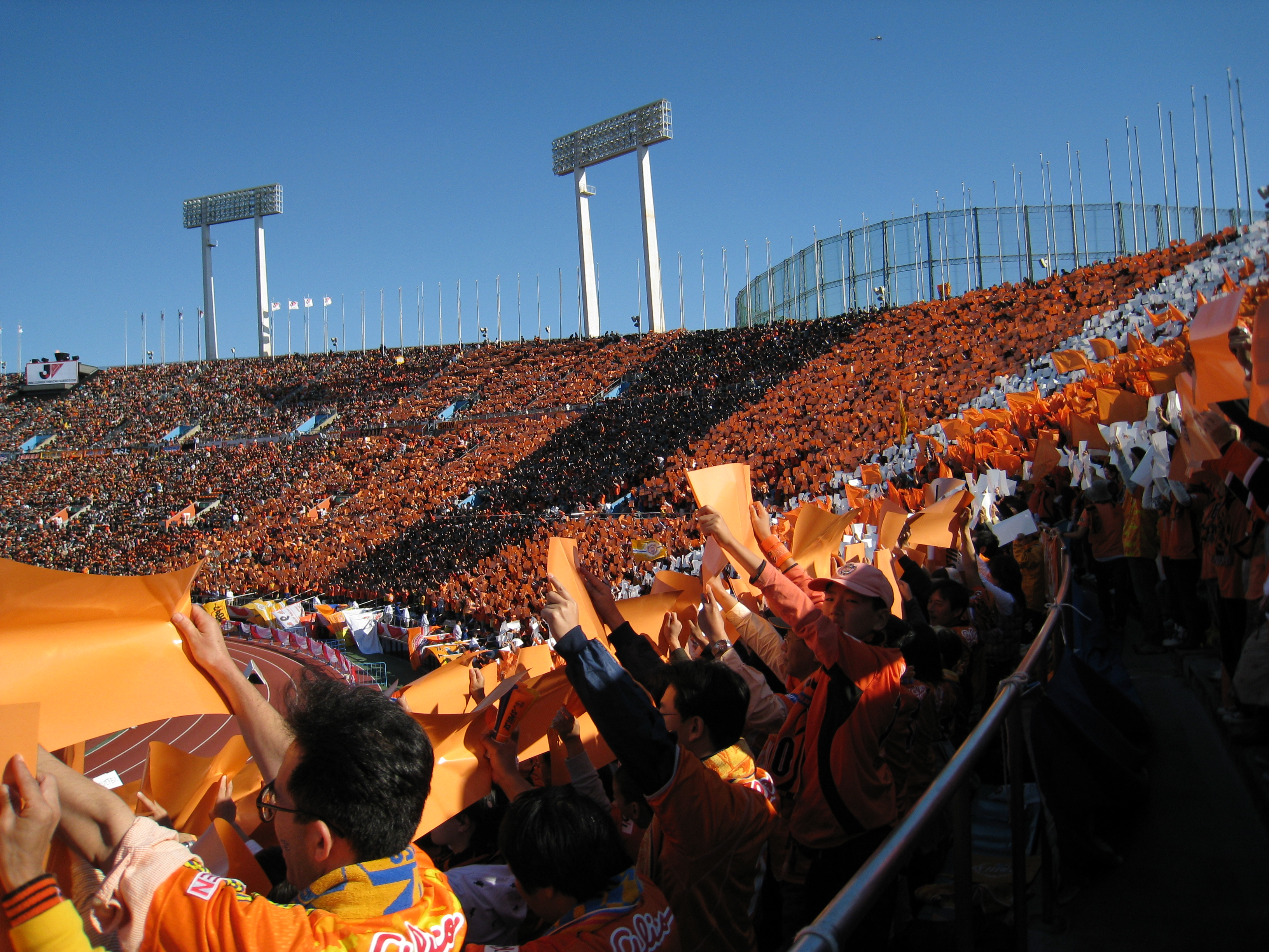 Nabiscocup.final 2008-Shimizu